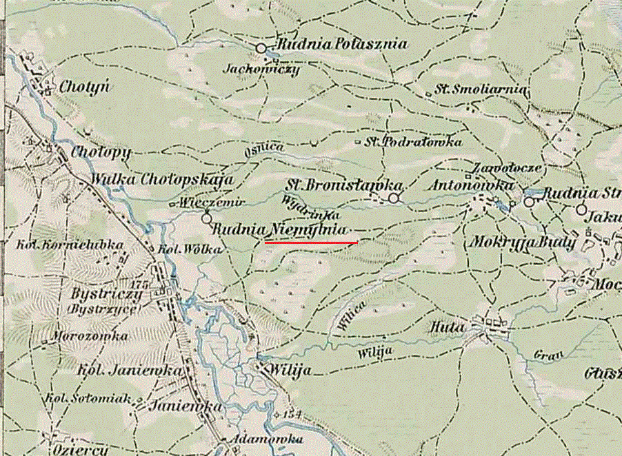 Area around Niemilia on a military Austrian map